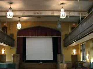 Currie Hall, Memorial to the Canadian Corps in World War I, Currie Building, Royal Military College of Canada, Kingston Ontario, Canada